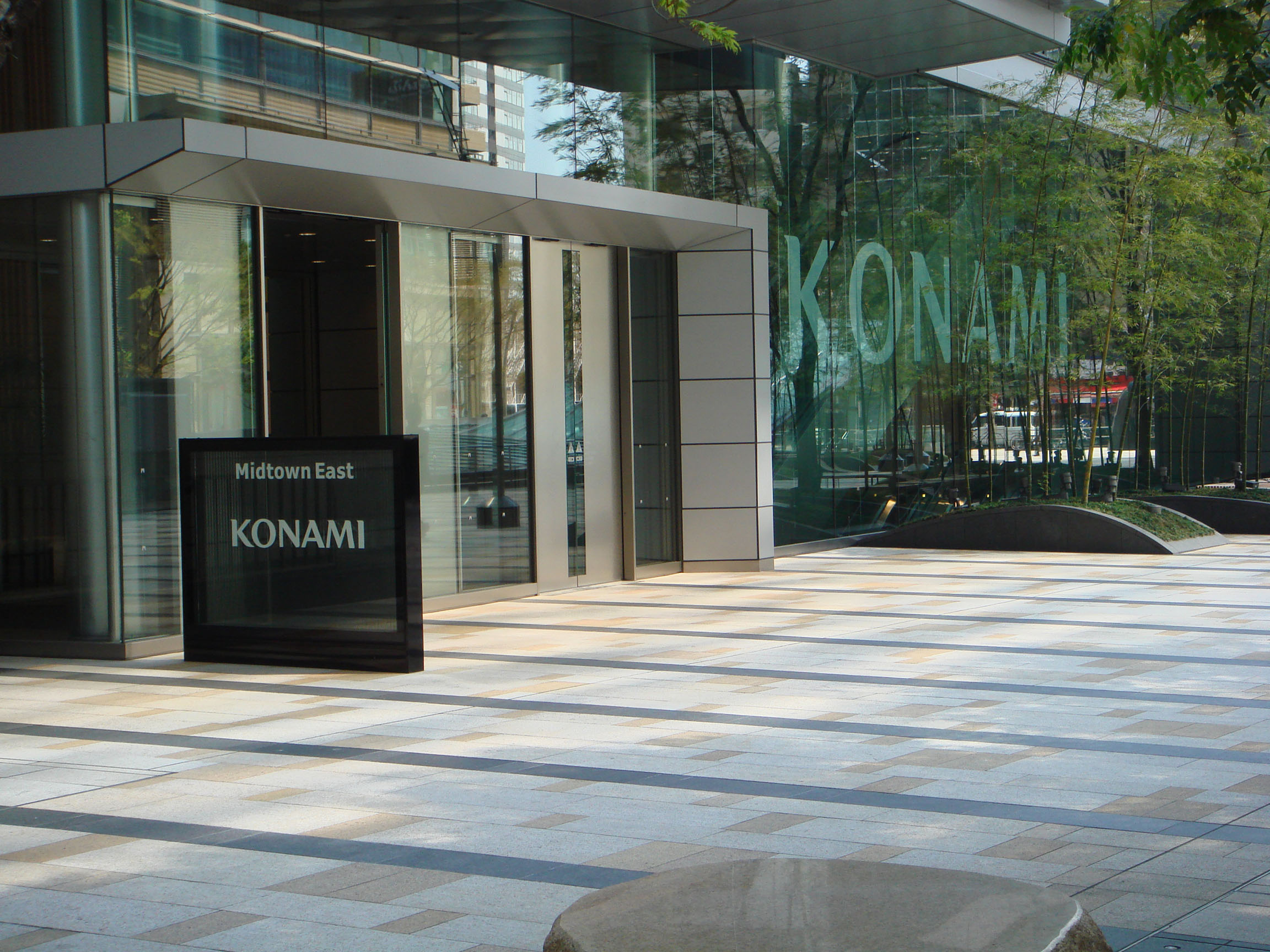 Photograph at headquarters main entrance of Konami corporation.